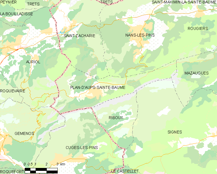 Map of French municipality Plan-d'Aups-Sainte-Baume